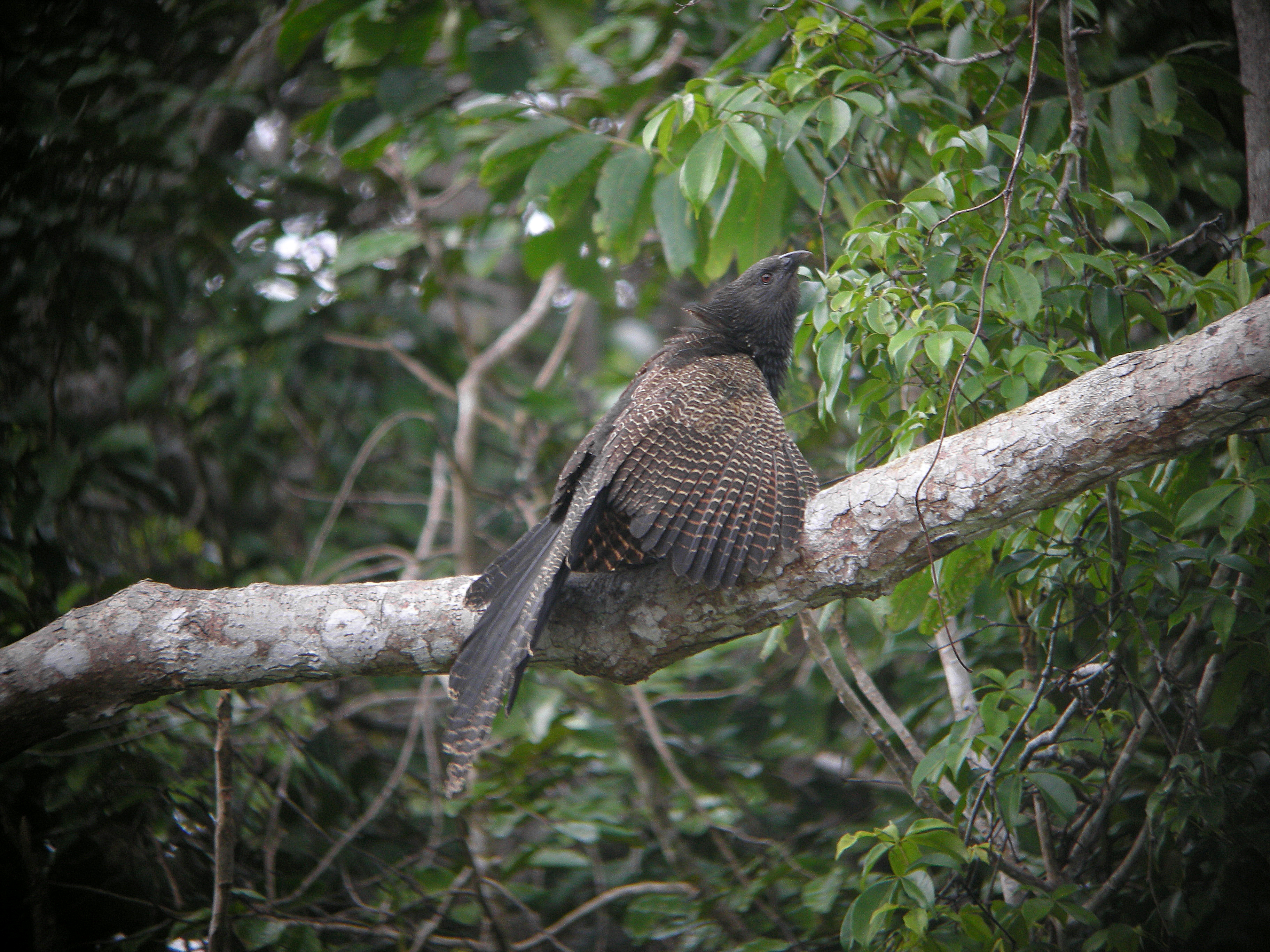 Pheasant Coucal in Papua New Guinea.